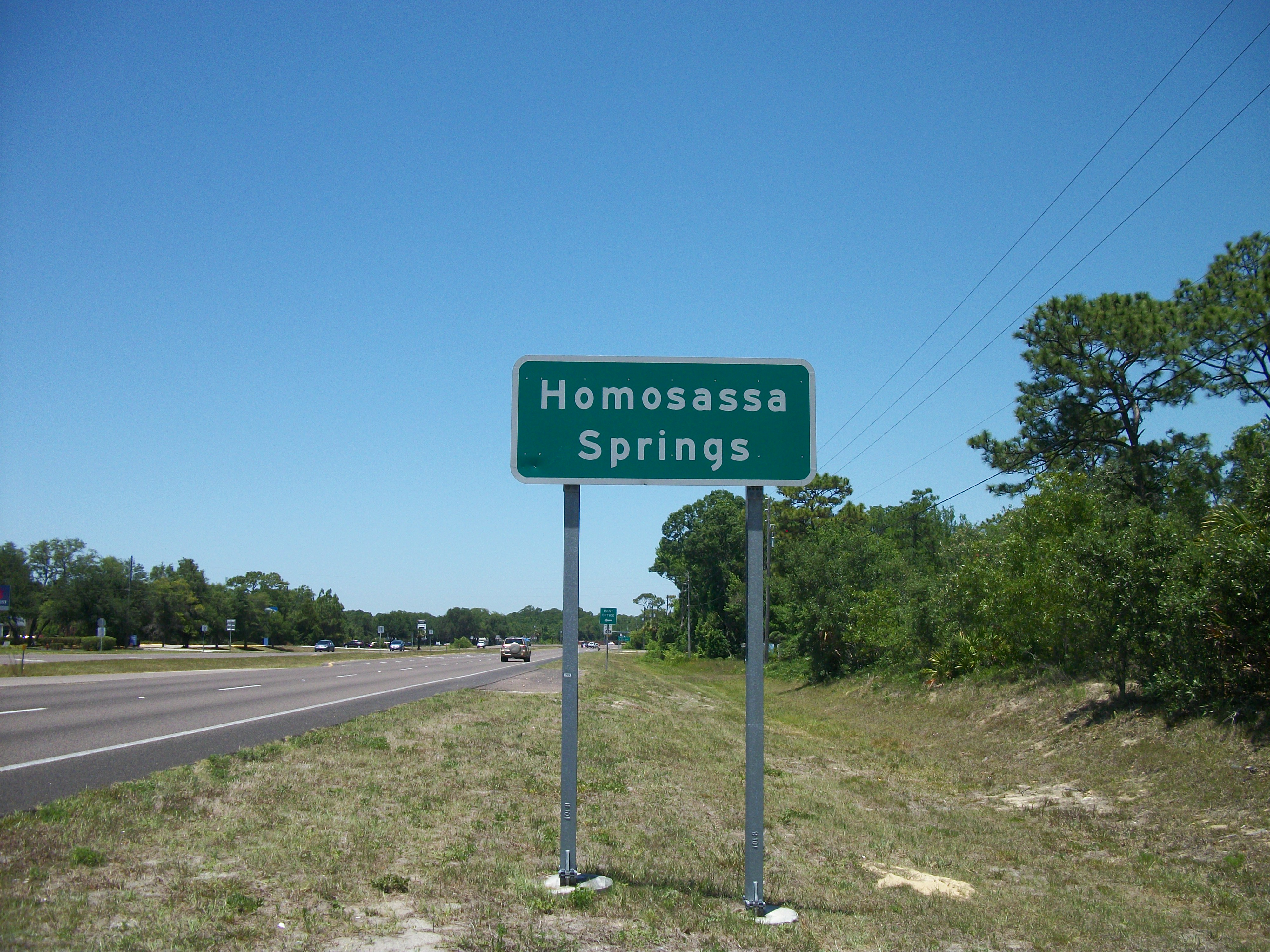 A shot of northbound US 19-98 as it enters the border of Homosassa Springs in Citrus County, Florida.